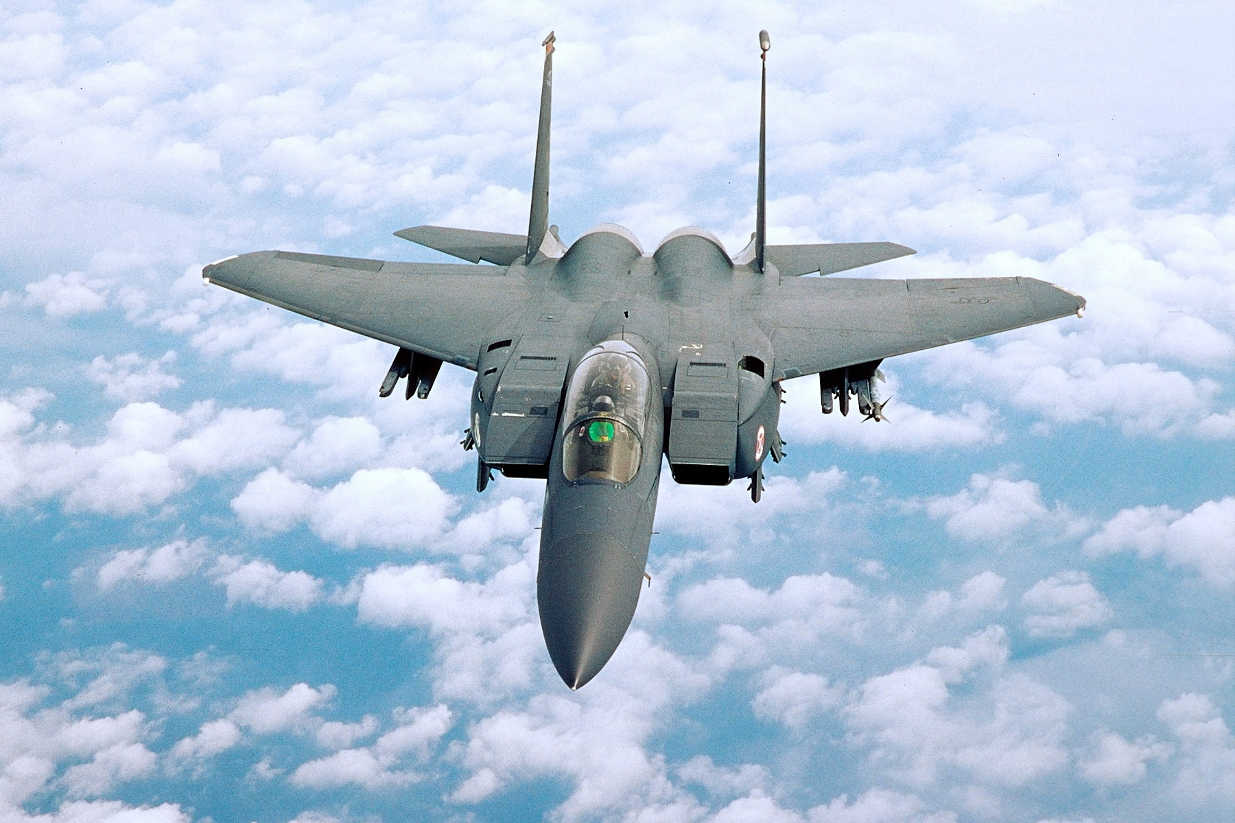 An F-15E Strike Eagle from the 4th Fighter Wing, Seymour Johnson Air Force Base, N.C.